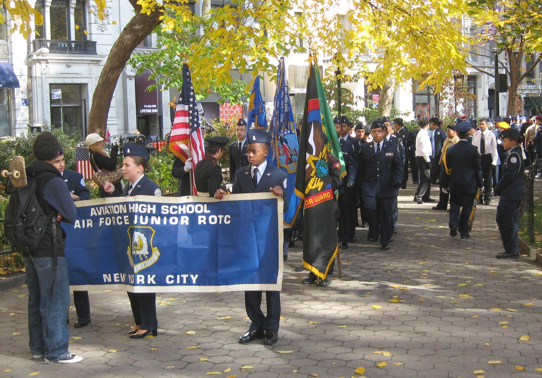 Looking east in the northern part of Madison Square Park, as Aviation High School (Long Island City, New York) JROTC prepare to march in Veterans Day parade, 2008